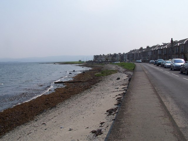 Port Bannatyne, Ardbeg Point.